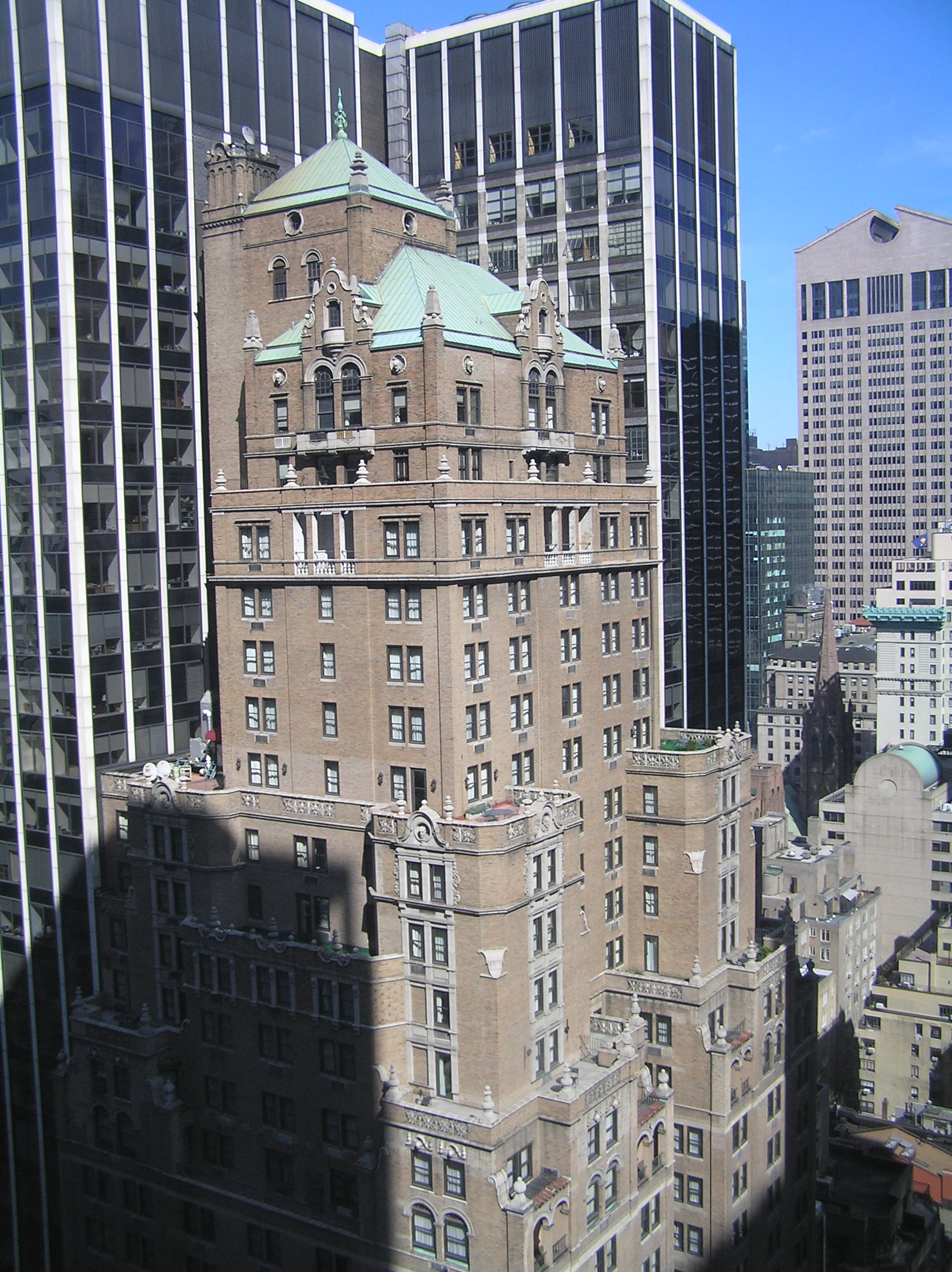 Looking east across 6th Avenue and 54th Street at Warwick Hotel on a sunny afternoon.